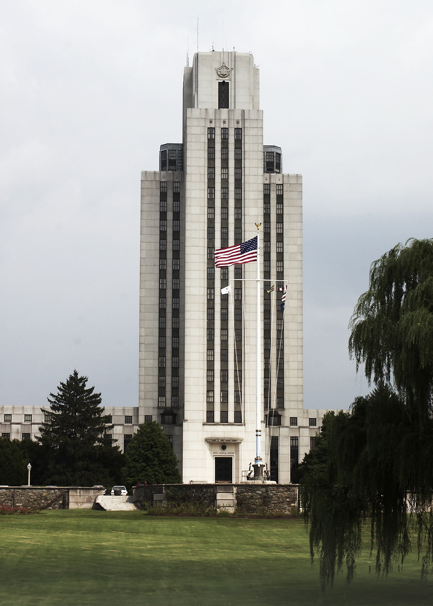 National Naval Medical Center, Bethesda, Md., (Aug. 20, 2003) -- The entrance to the National Naval Medical Center in Bethesda, Maryland. The building, which was the original Naval Hospital on the site, now contains offices and the Dental Center. U.S. Navy photo by Chief Warrant Officer 4 Seth Rossman. (RELEASED)